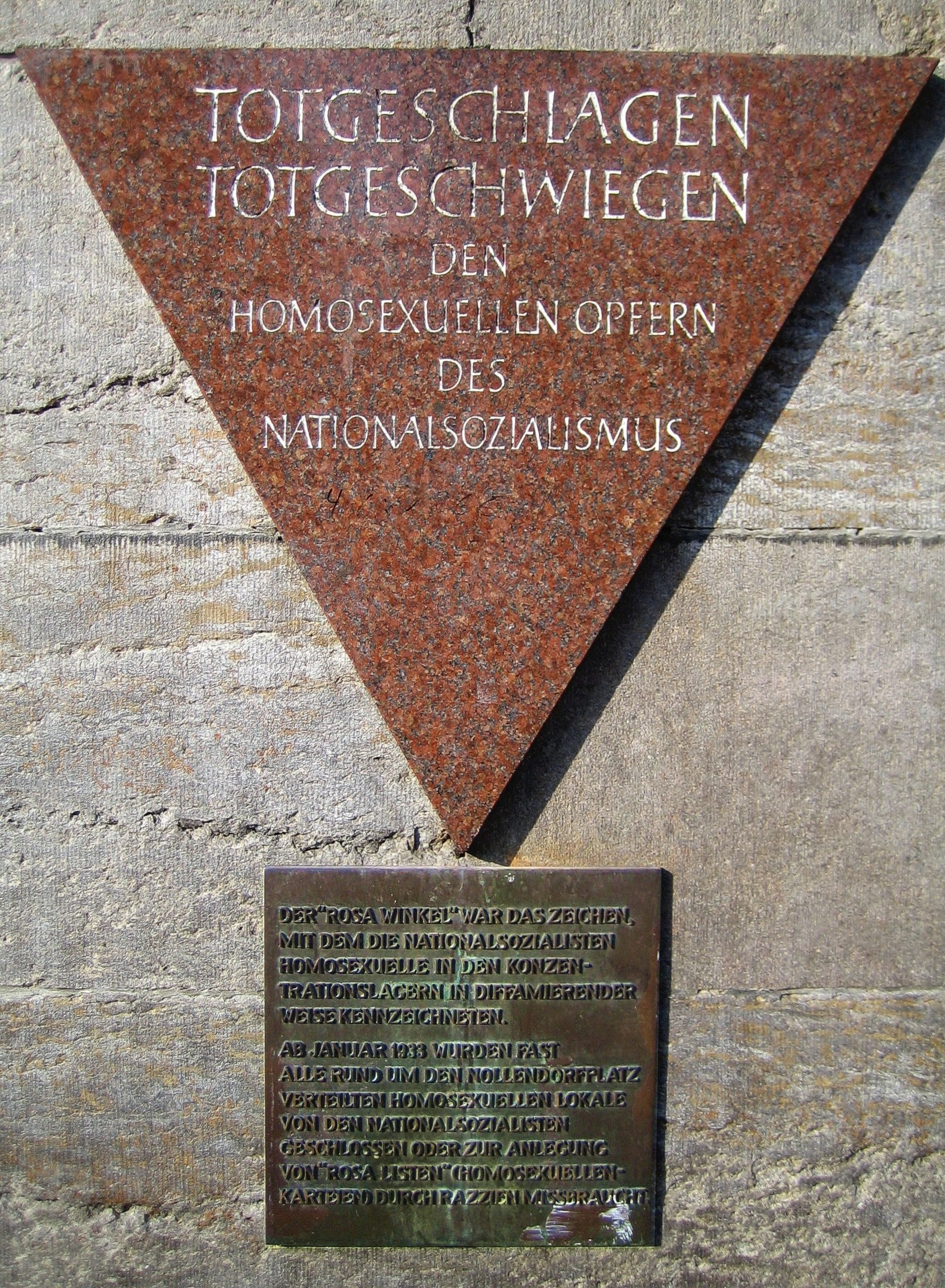 Memorial about the persecution of homosexuals during the epoch of Nazism. Translation of the inscription on the memorial stone: Killed Hushed up To the homosexual victims of Nazism The "pink triangle" was the sign the Nazis marked homosexuals in the concentration camps in a defamatory manner. From January 1933 on all homosexual cafes around Nollendorplatz were either closed or used during raids to make "pink files" (databases of homosexuals).